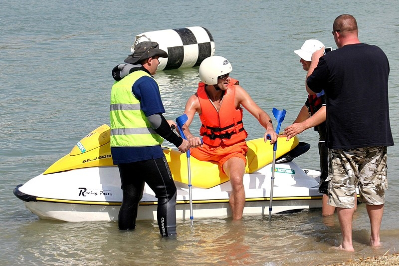 ParaJet-Ski national competition, (Hungary)